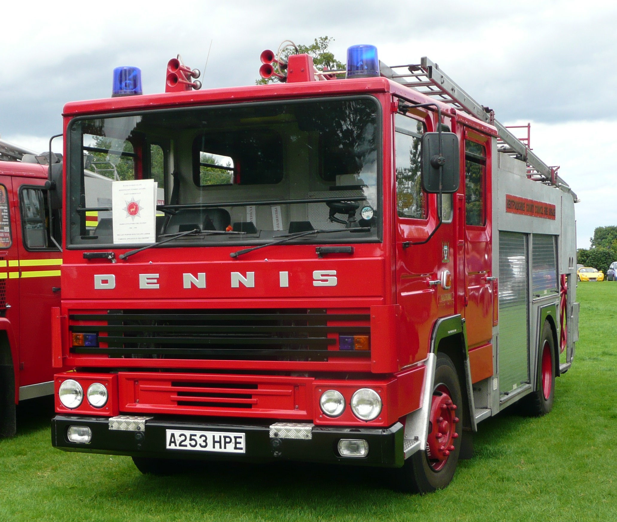 Preserved Hertfordshire Fire and Rescue Service A253 HPE, a 1984 Dennis SS fire appliance, at the 2008 Alton bus rally at Anstey Park.